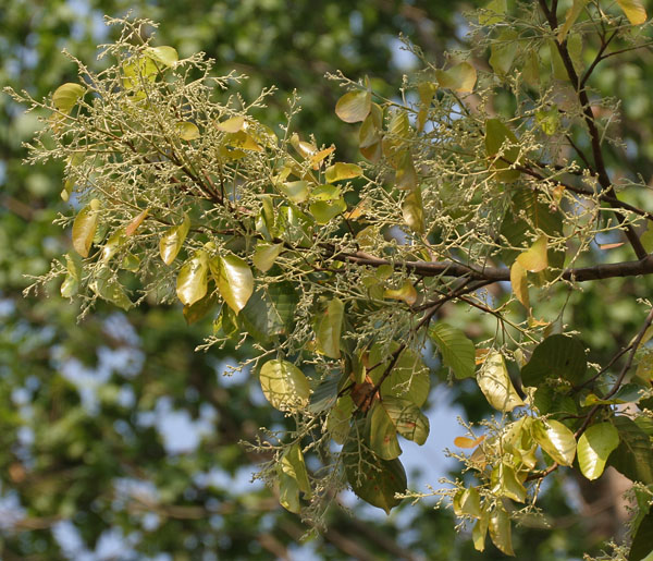 Sal Shorea robusta at Jayanti in Buxa Tiger Reserve in Jalpaiguri district of West Bengal, India.